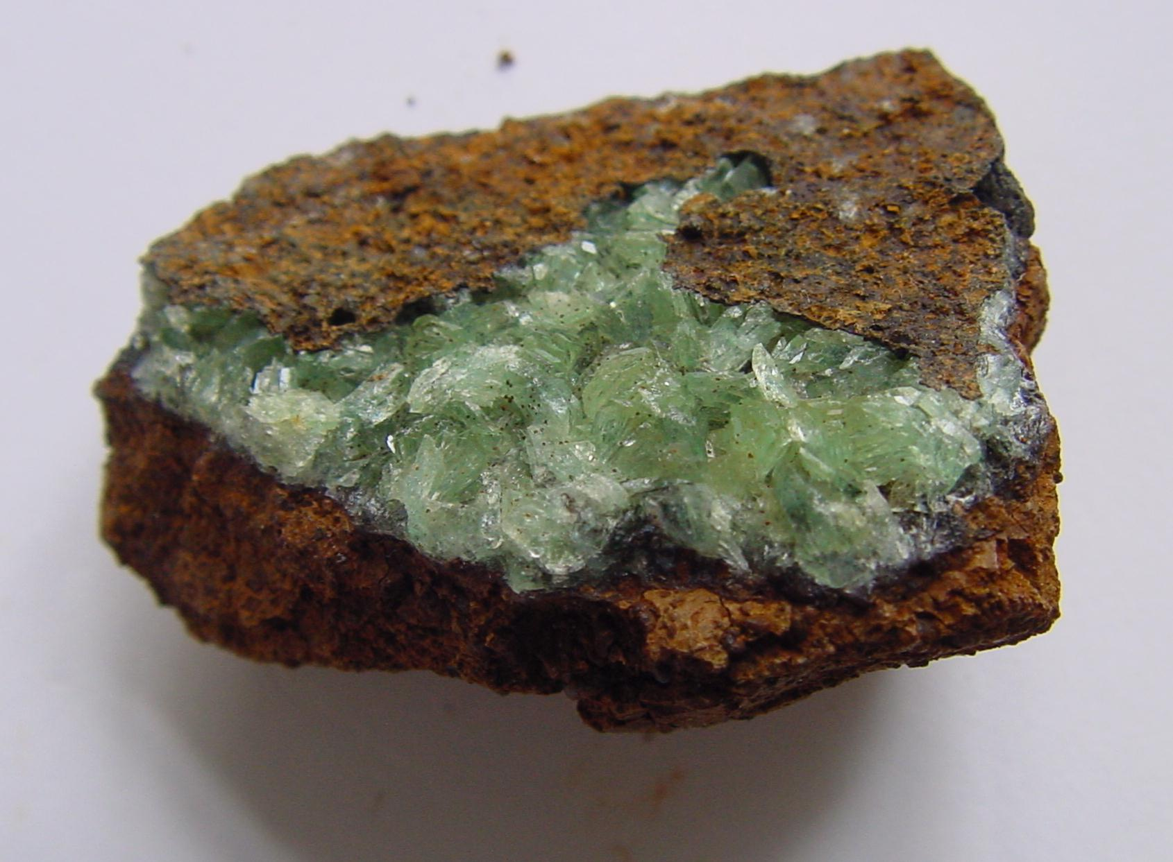 Anapaite from the Ukraine. Specimen size 3.5 cm